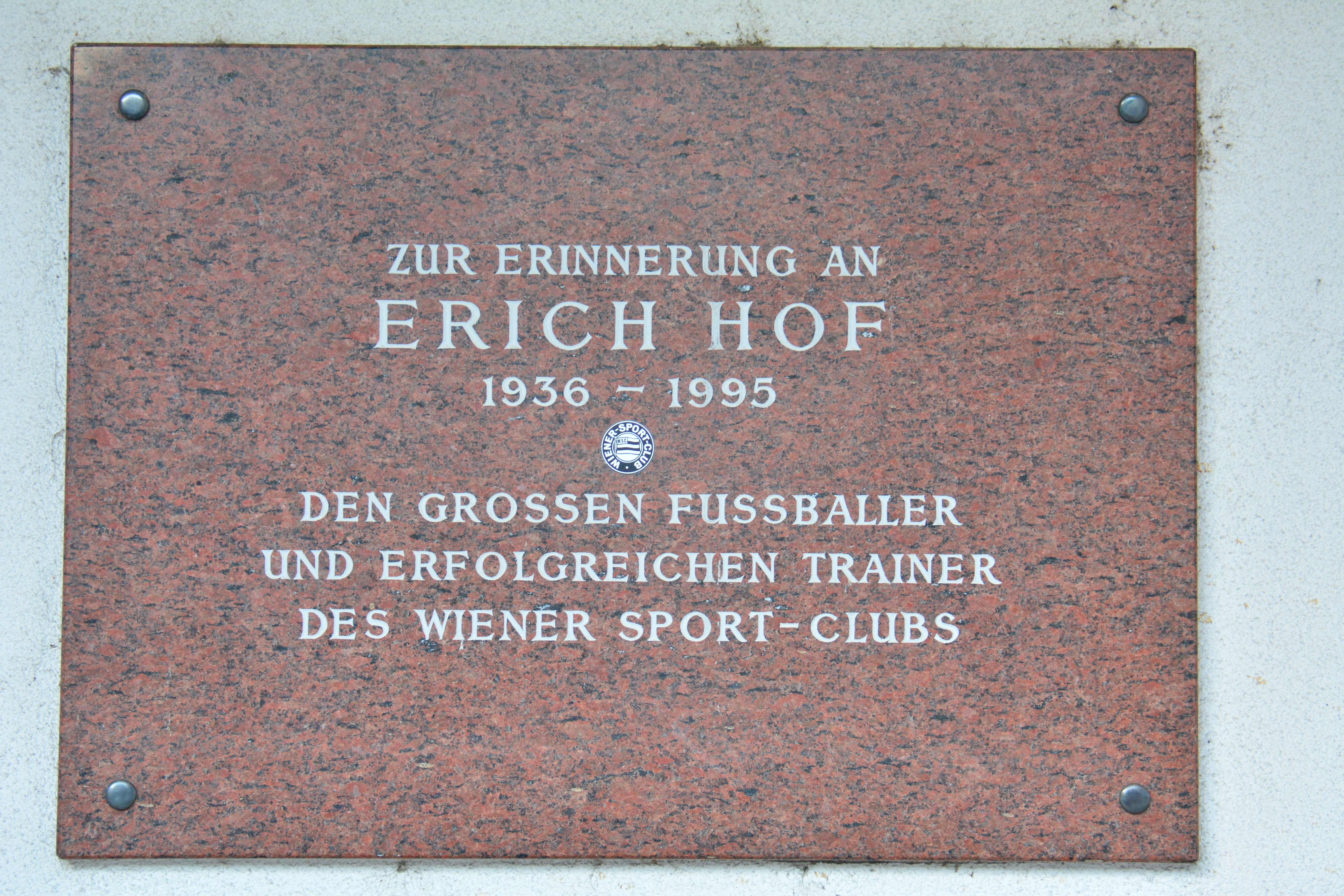 Memorial plaque for Erich Hof